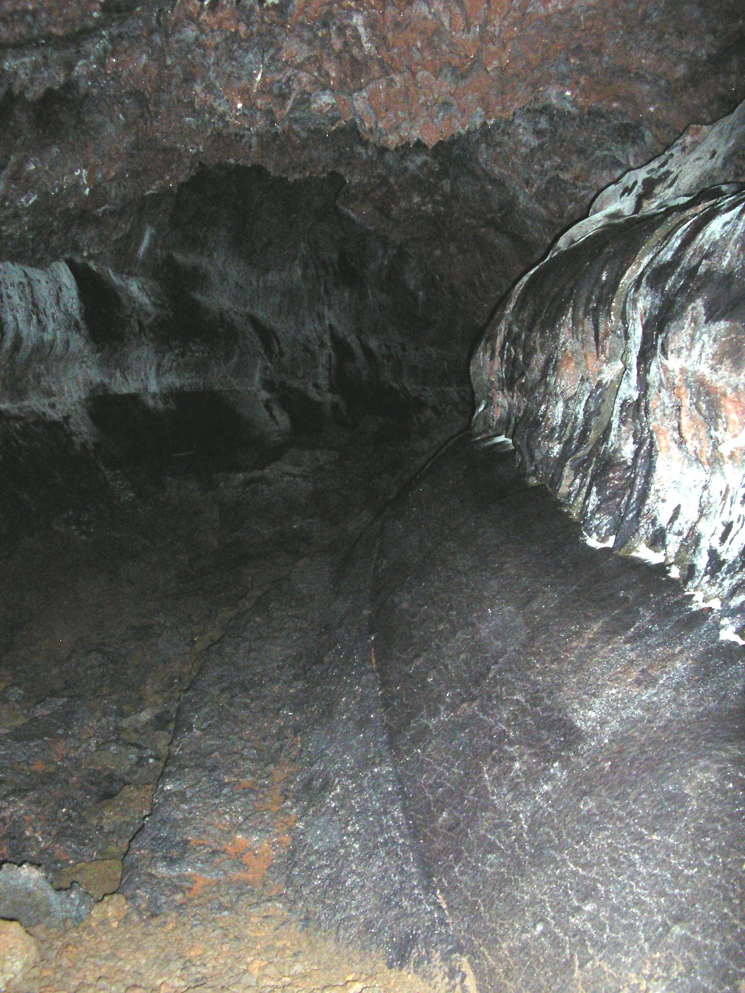 One of the lava tubes in the Gruta das Torres cave system, Azores. Former lava flow levels are clearly visible.